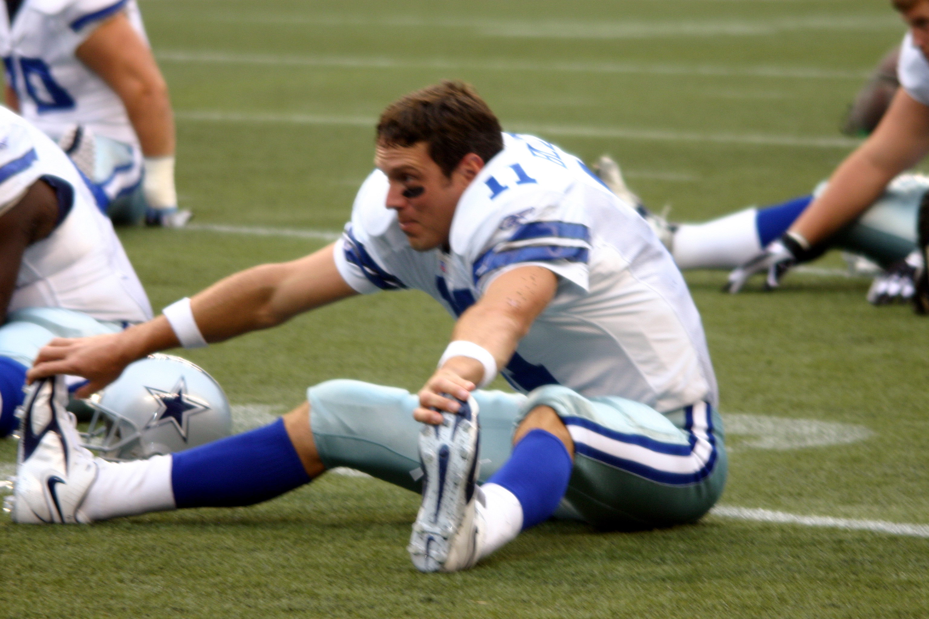 Drew Bledsoe stretching before a Dallas Cowboys-Seattle Seahawks football game in Seattle, 2005 October 23.